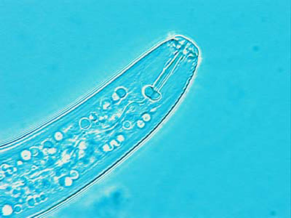 Pratylenchus penetrans This image or file is a work of a United States Department of Agriculture employee, taken or made as part of that person's official duties. As a work of the U.S. federal government, the image is in the public domain.